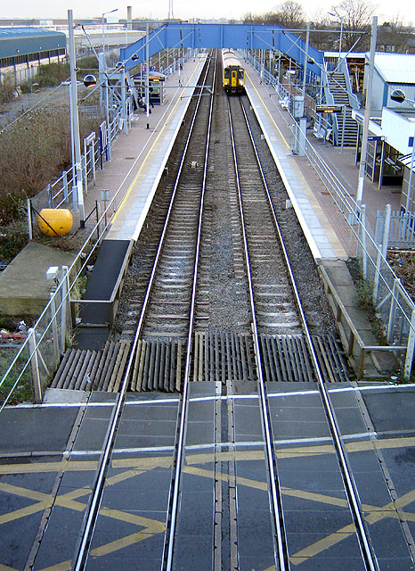 Northumberland Park railway station, Tottenham, Haringey, London. 8 February 2006. Photographer: Fin Fahey